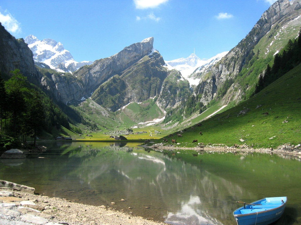 Seealpsee, Switzerland